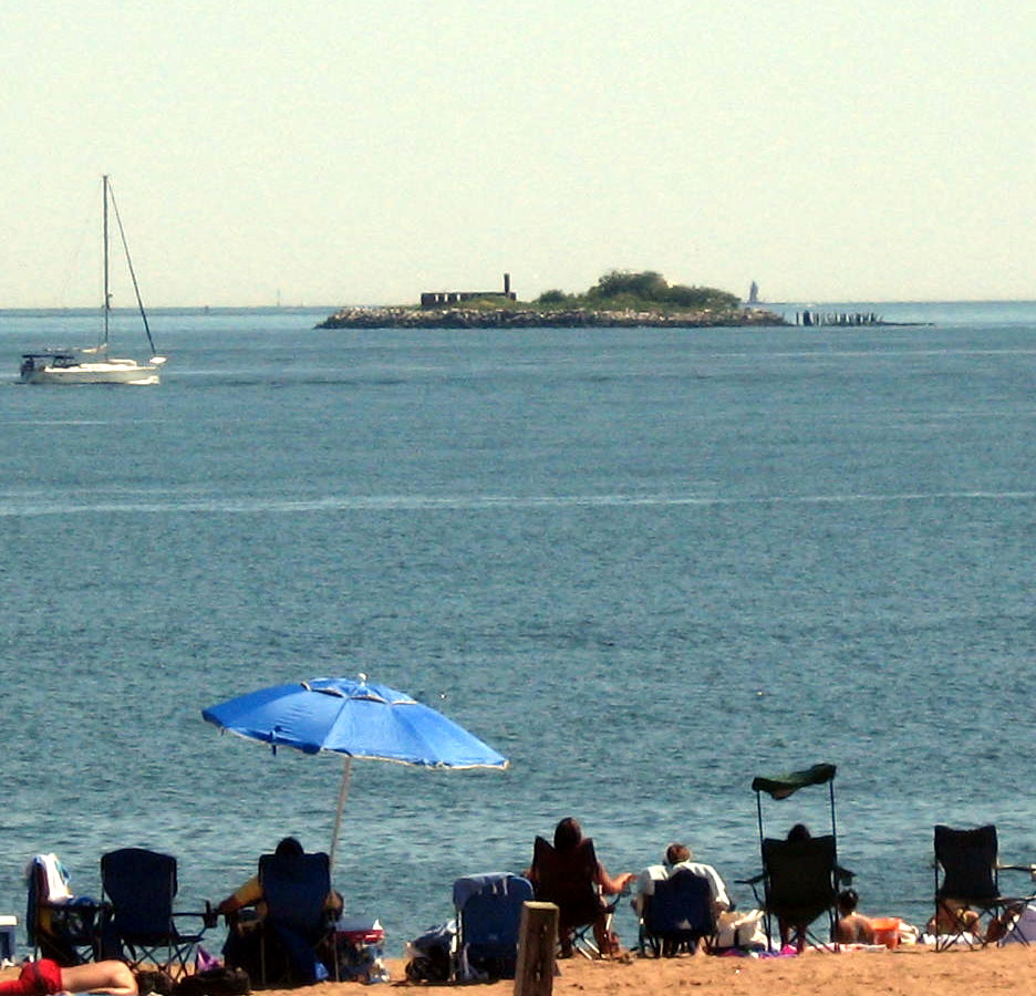 Looking SSE at Swinburne Island from South Beach on a clear, sunny midday. To get a better one we'll need better equipment.